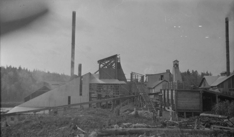 Cuniptau (misspelled "Cuniptan" in source) Mine, Mill and Smelter, Strathy Township, Temagami District, Ontario